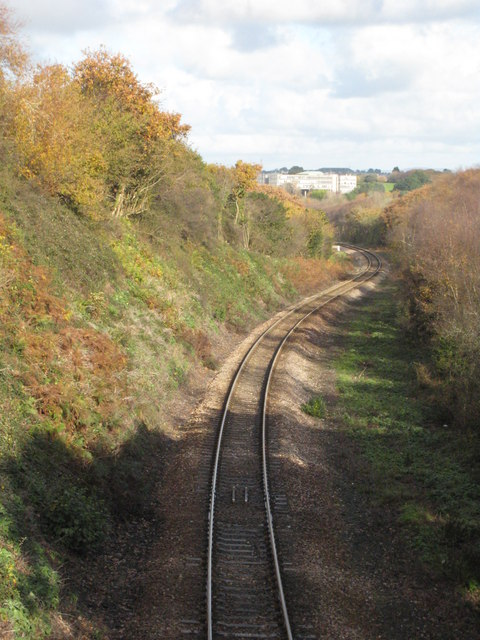 The Truro to Falmouth branch line at Penweathers County Hall can be seen in the distance.